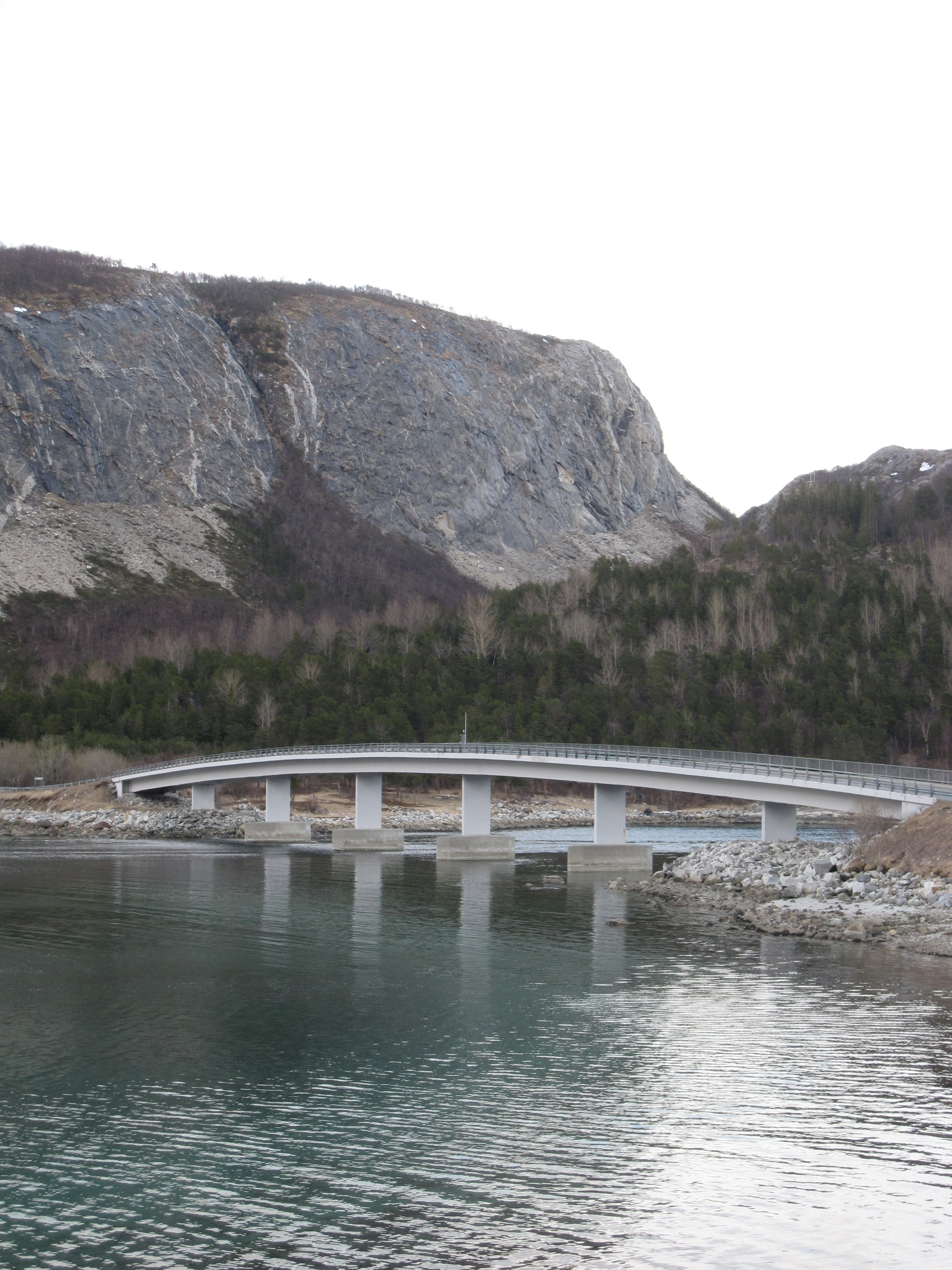 Picture of Åselistraumen bridge in Nordland, Norway.